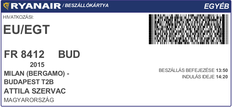 A boarding pass to Hungary. Attila Szervác travels from Italy to the LHBP - Liszt Ferenc Airport